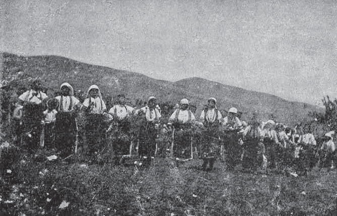 Women's traditional dance in Capari, Bitola